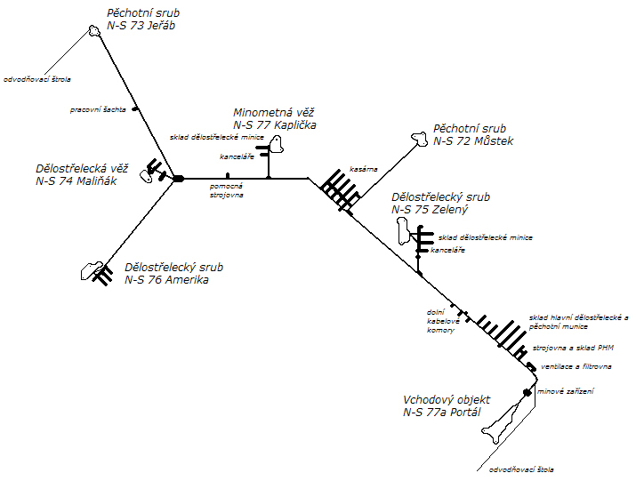 Map of artillery fortress Dobrošov